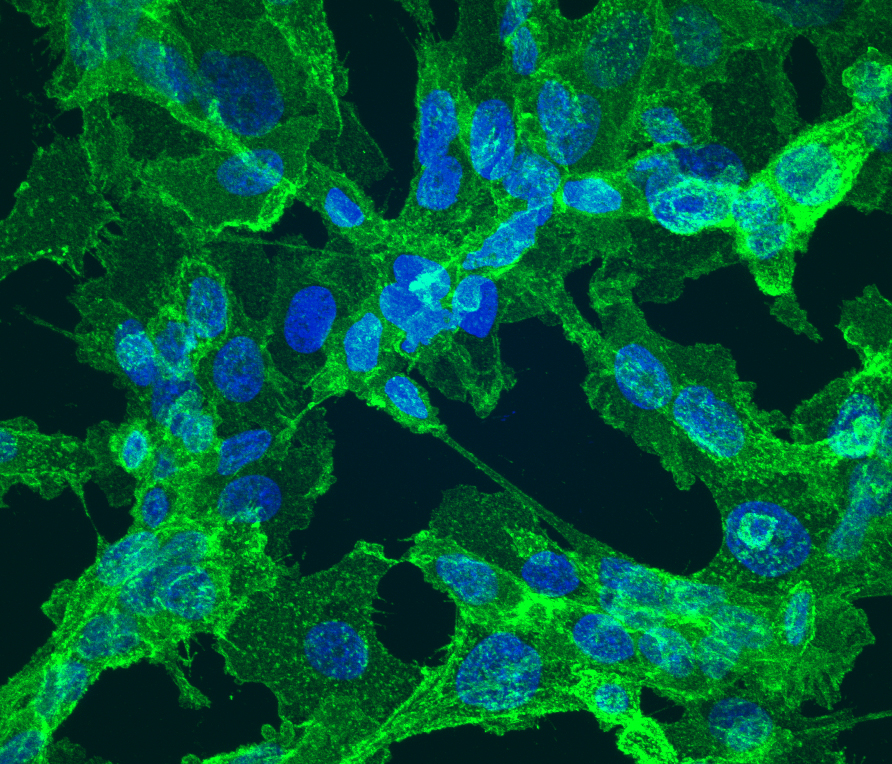 Fibrosarcoma cells, reportedly stained with an antibody binding to membrane protein CD151 (green) and a dye for the nucleus (blue). Source not given.Original metadata follows: [Improvision Data]ImageName=TimeStampMicroSeconds=3319059311258000TimeStamp=19:55:11.258 on Mar 04, 2009ChannelName=ChannelNo=1TimepointName=1TimepointNo=1ZPlane=1BlackPoint=0WhitePoint=255WhiteColour=255,255,255XCalibrationMicrons=1YCalibrationMicrons=1ZCalibrationMicrons=1TotalChannels=1TotalTimepoints=1TotalZPlanes=1TotalZPlanes=1SampleUUID=7c508ff2-066e-4064-a379-aaf5b2b45d3a